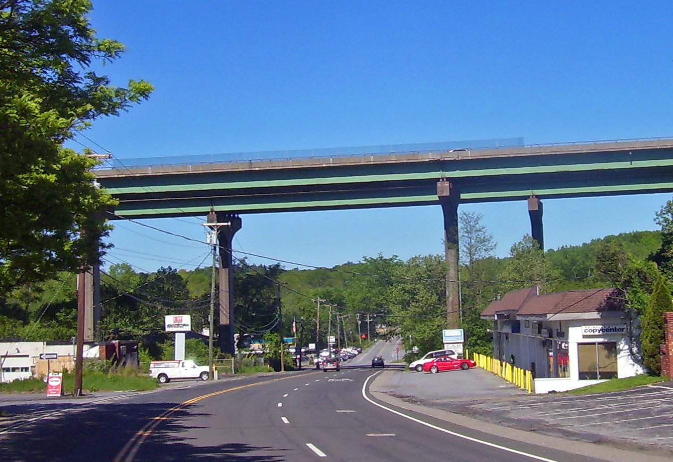 Bridge carrying Interstate 84 over the Croton River, US 6, US 202 and NY 22 just north of Brewster, NY